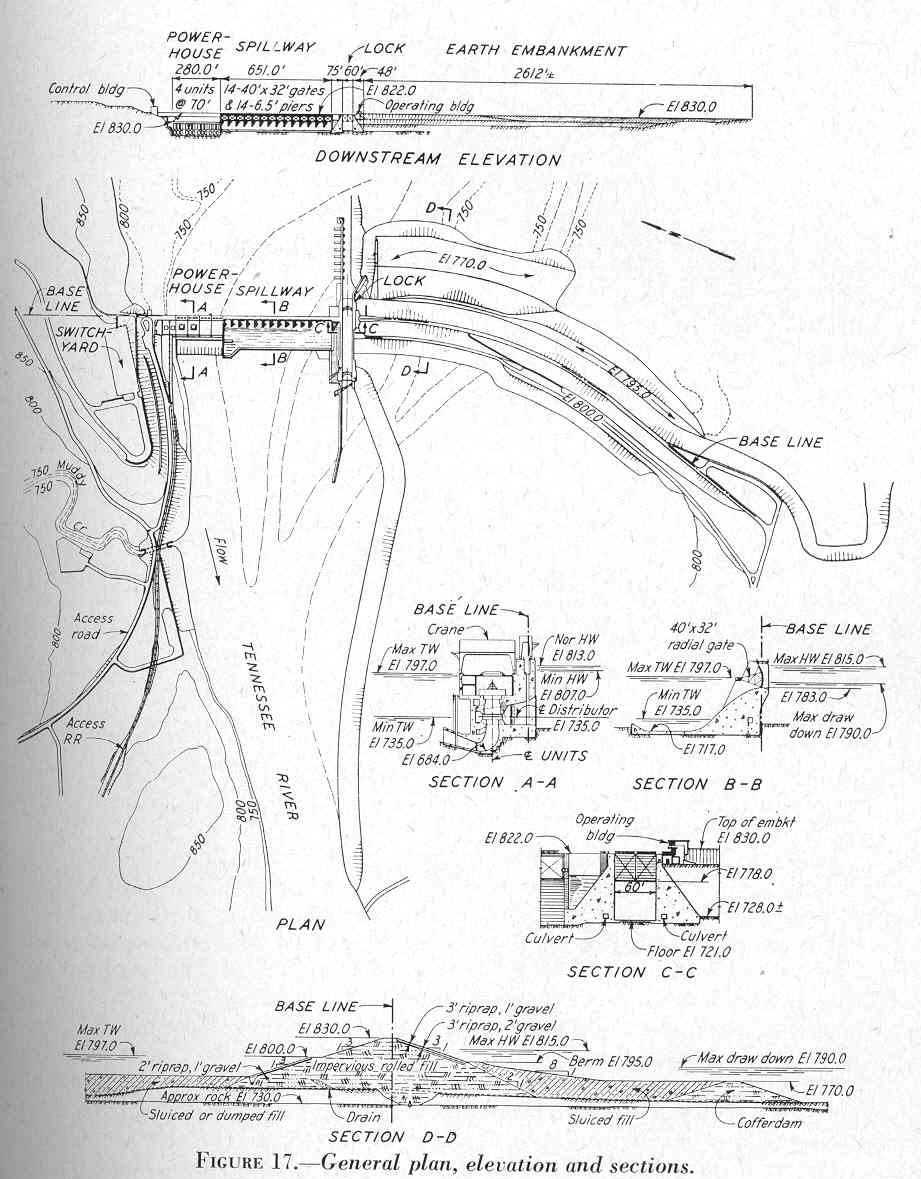 TVA's design plan for Fort Loudoun Dam, built on the Tennessee River near Lenoir City, Tennessee, USA in the early 1940s.